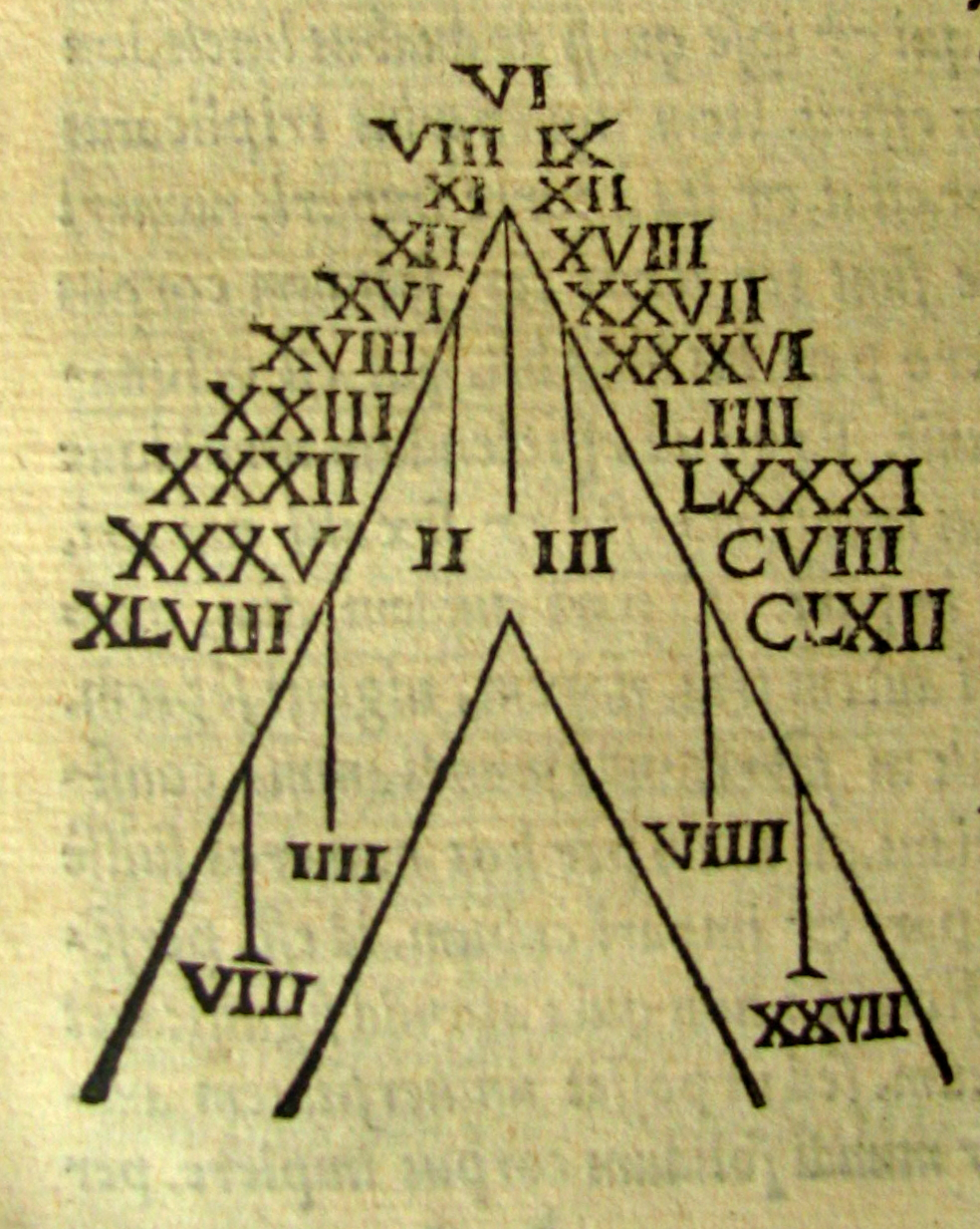 Numerical diagram in In Somnium Scipionis, by Macrobius, printed by Theobaldum Paganum, year 1560, p. 180